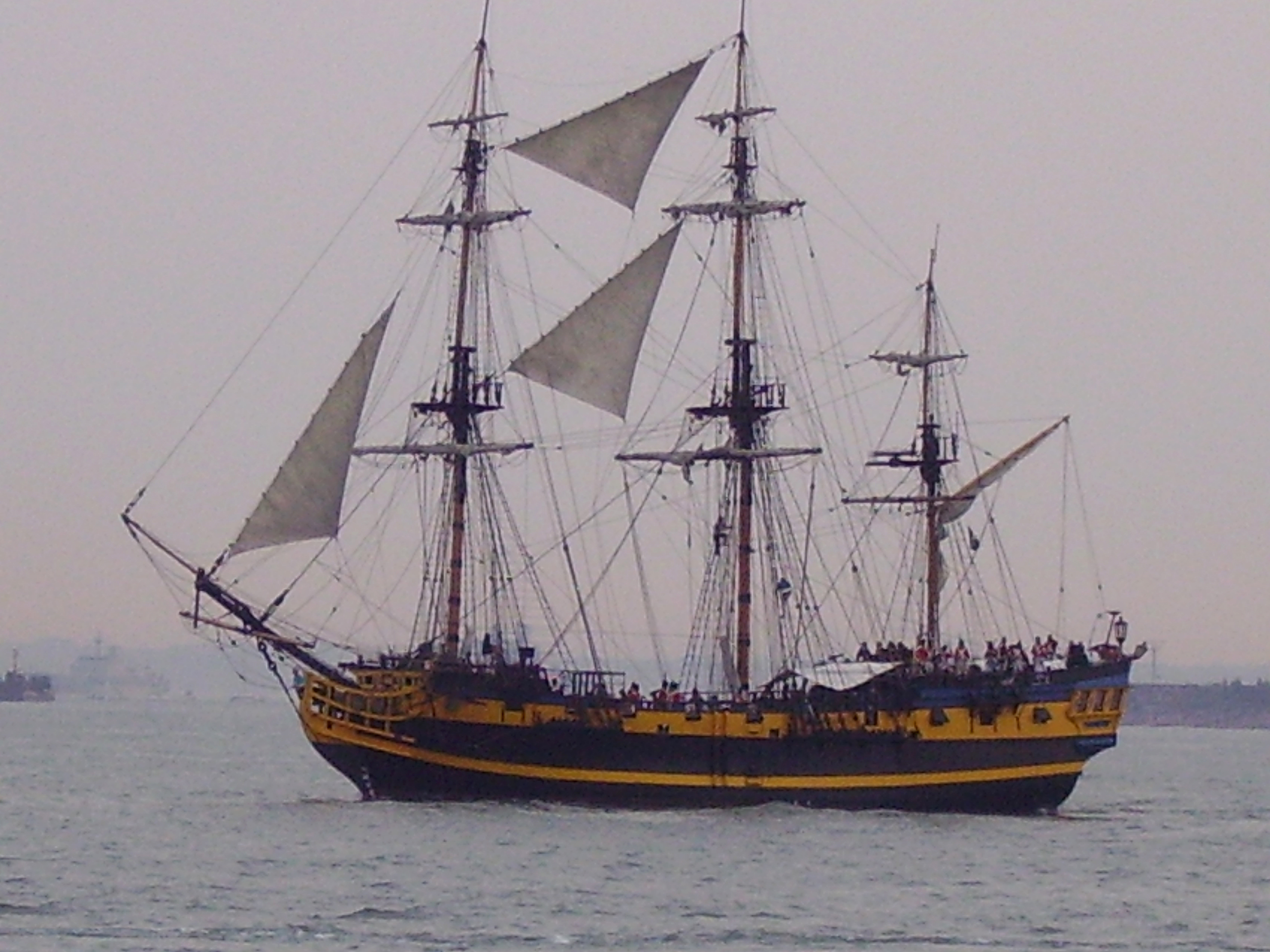 The frigate 'Grand Turk', at the Portsmouth Trafalgar 200 celebrations, 28th June 2005. The dateback was incorrectly set to change at midday, hence incorrect date shown. - Ballista 10:22, 31 July 2006 (UTC)